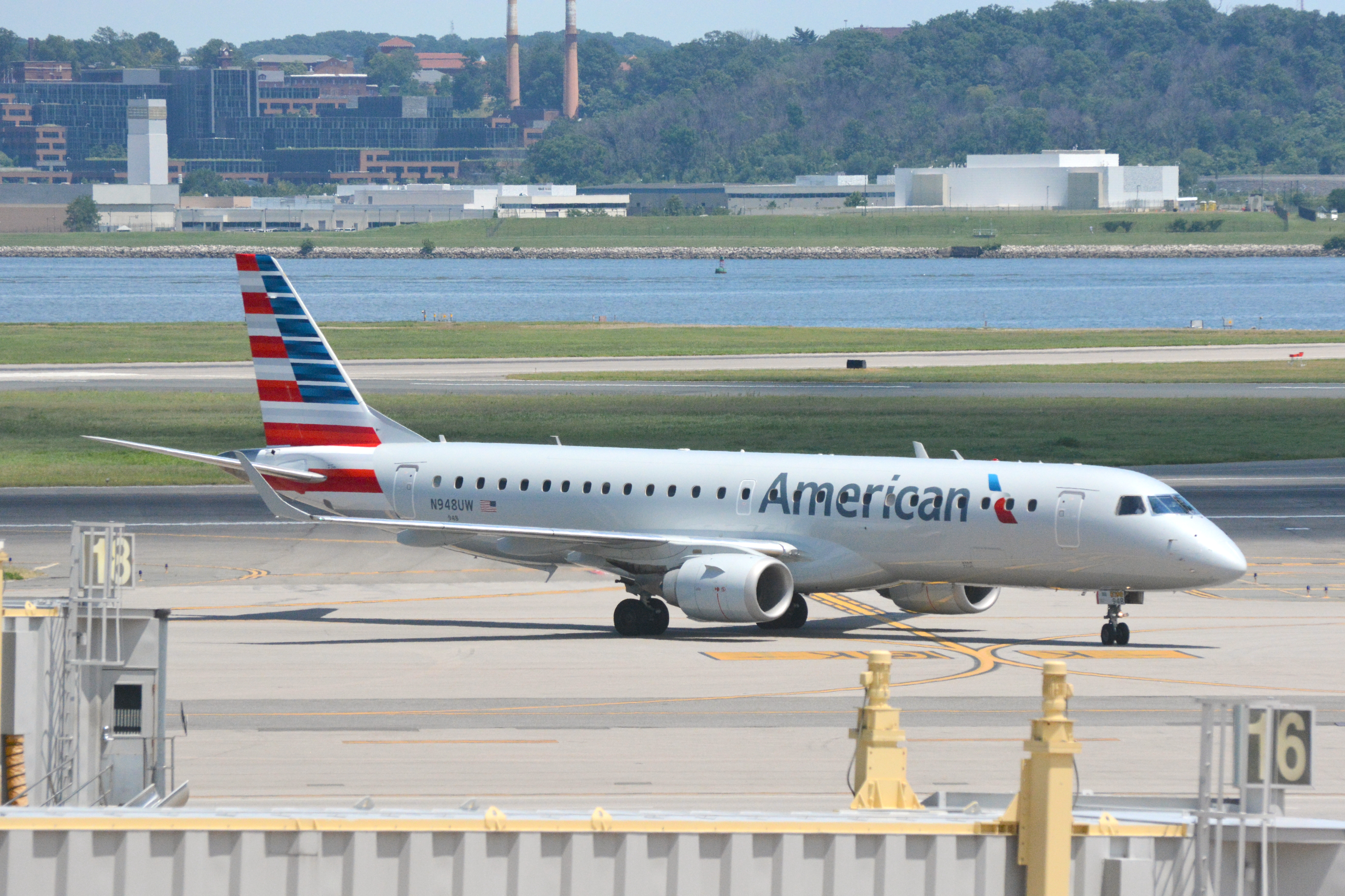 N948UW of American airlines at DCA.